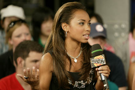 The cast of the 2007 film Bratz, at MuchMusic for a MuchOnDemand episode.